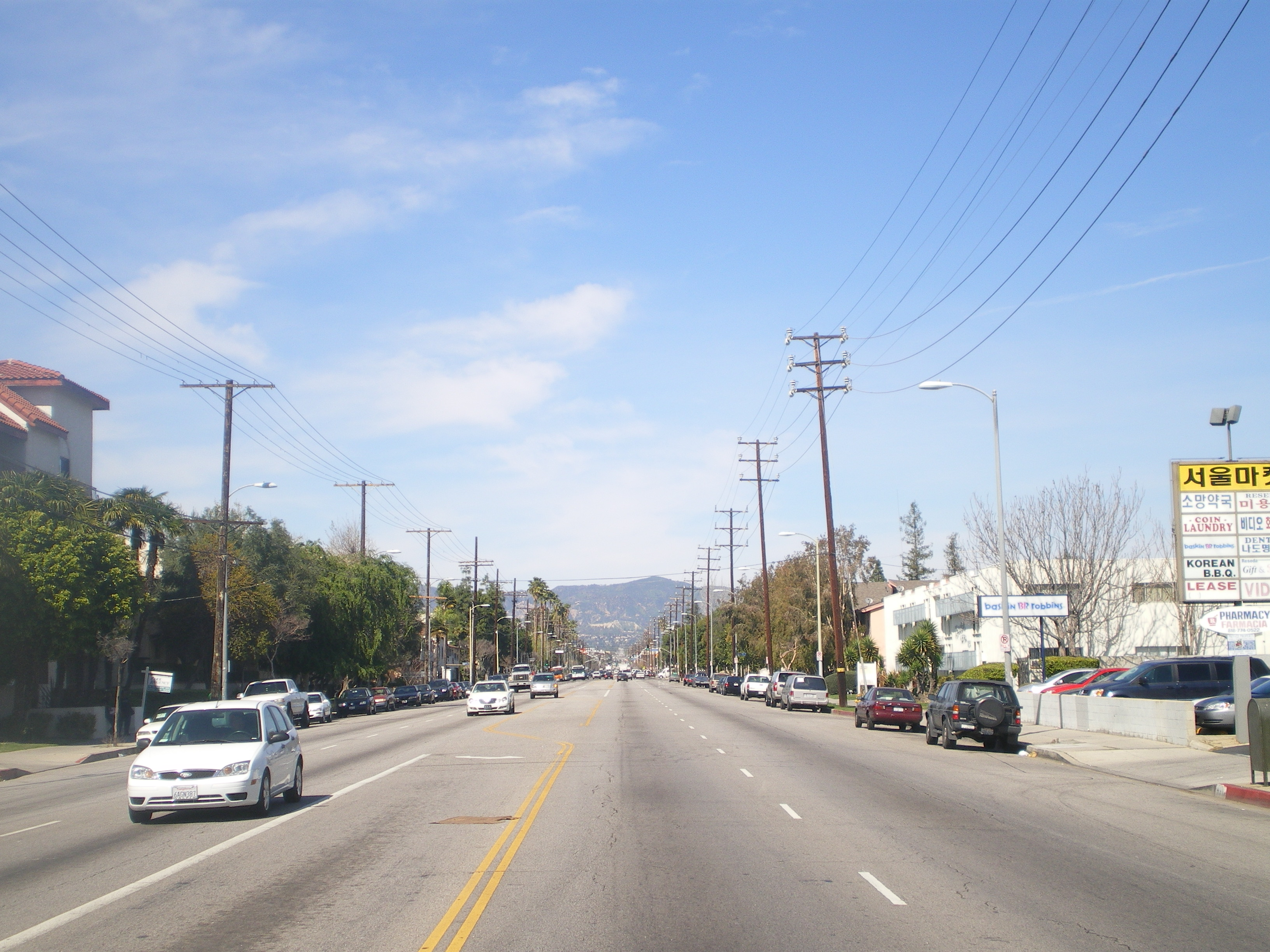 Resdeda Boulevard looking north from Saticoy Street in the Community of Reseda Reseda Boulevard, Reseda, California